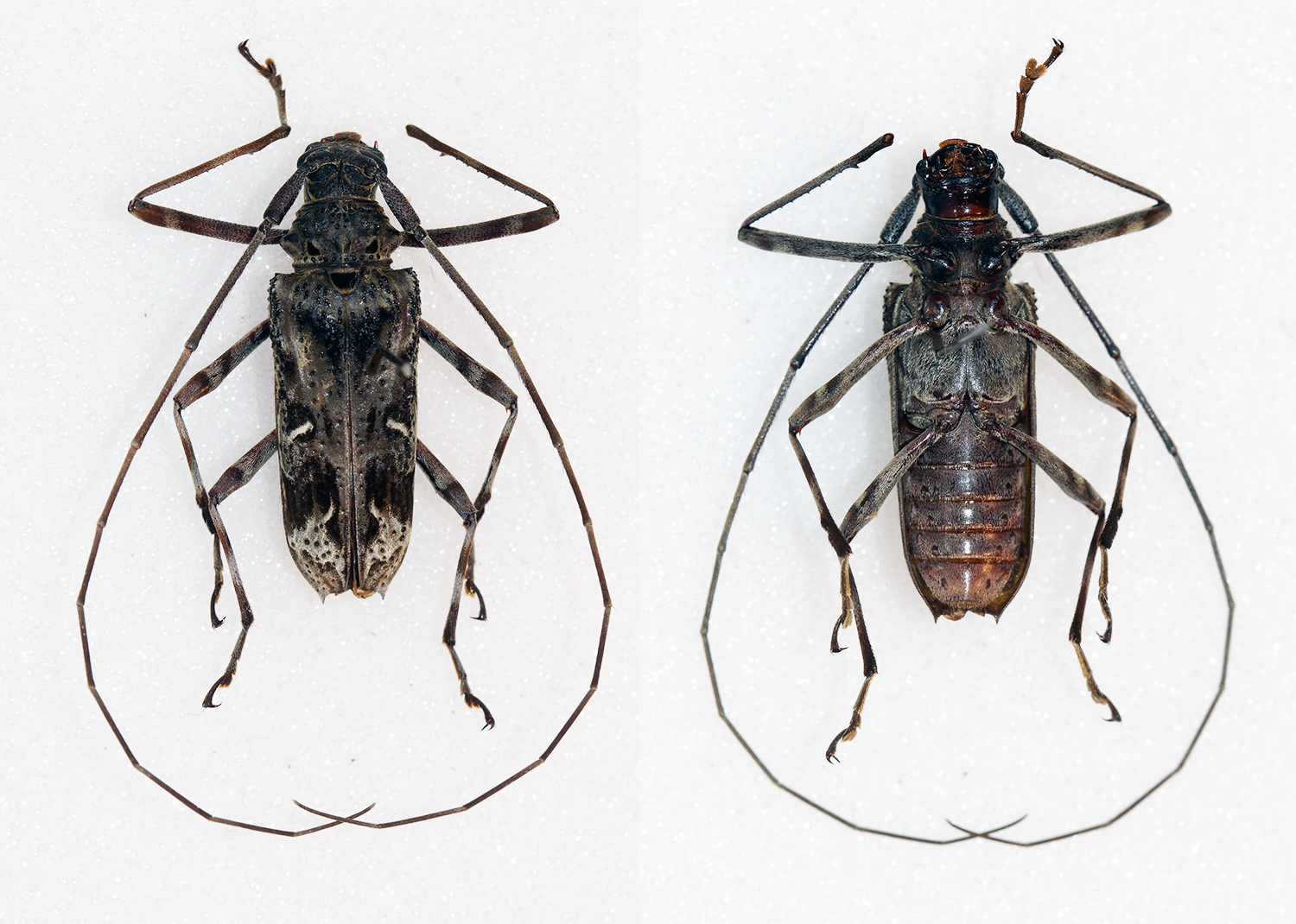 Cerambycidae